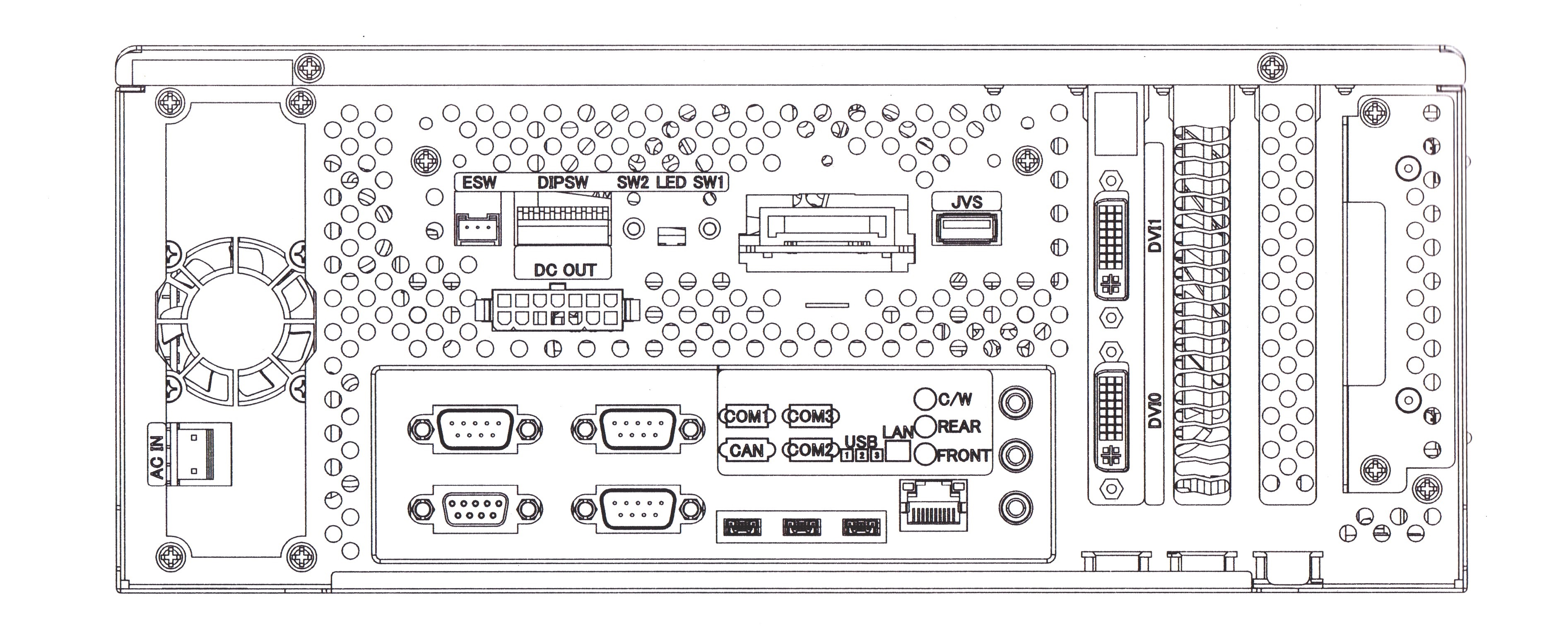 The bottom of the RINGEDGE2.